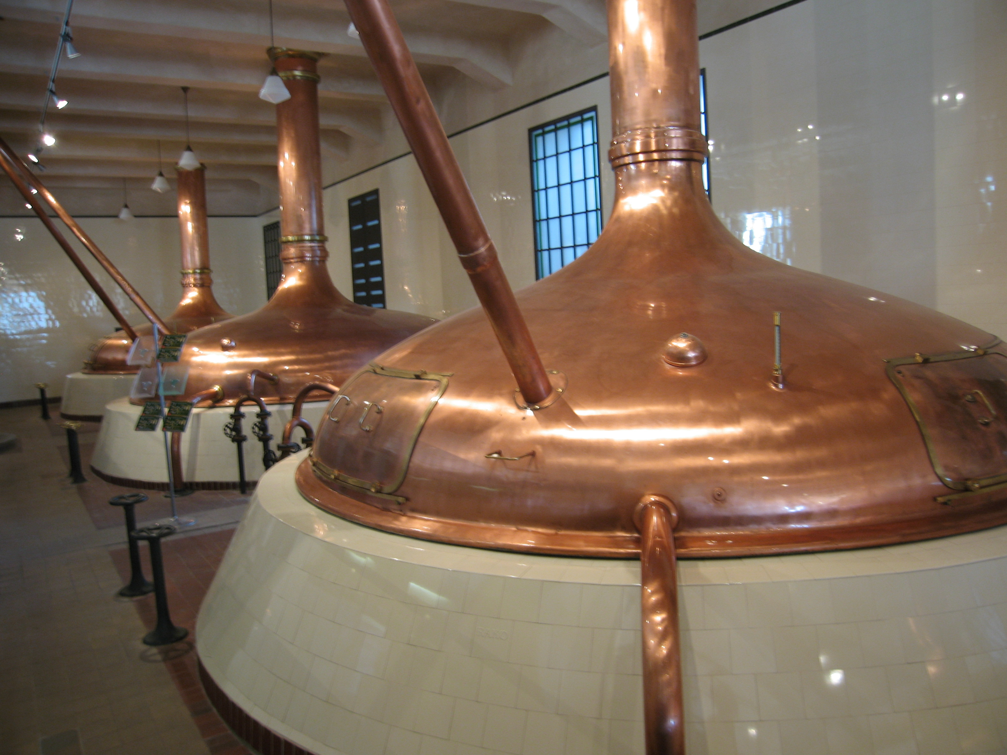 Tour of Plzeňský Prazdroj (Pilsner Urquell) brewery in Plzeň, Czech Republic.